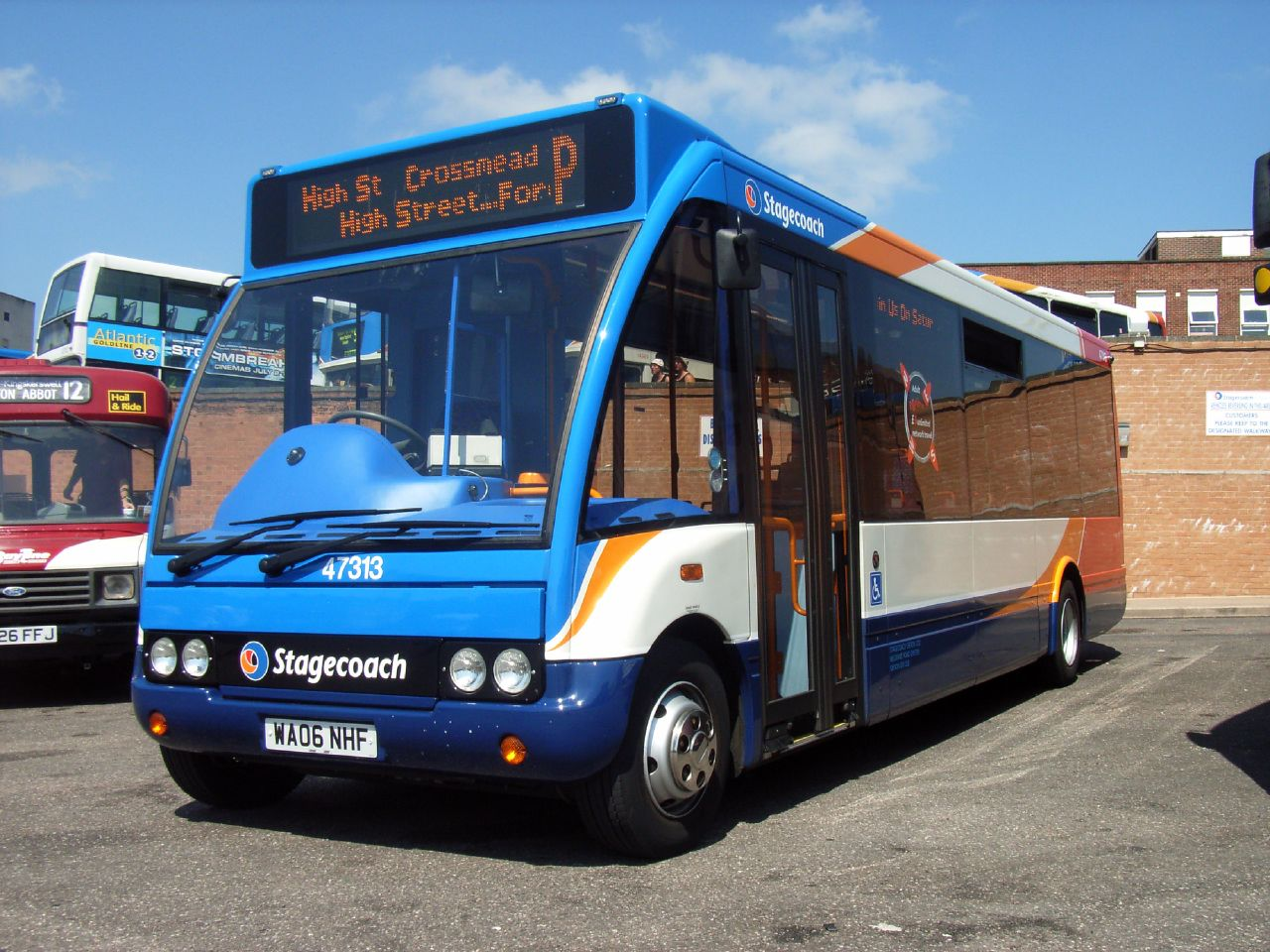 Brand new Stagecoach Devon bus (reg. WA06 NHF), a 2006 Optare Solo M850 midibus. It's pictured at the company's 10th Anniversary Running Day.